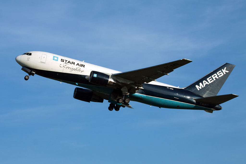 OY-SRN B767-200F Maersk. Departing on daily freight flight . Shannon 22 May 2012